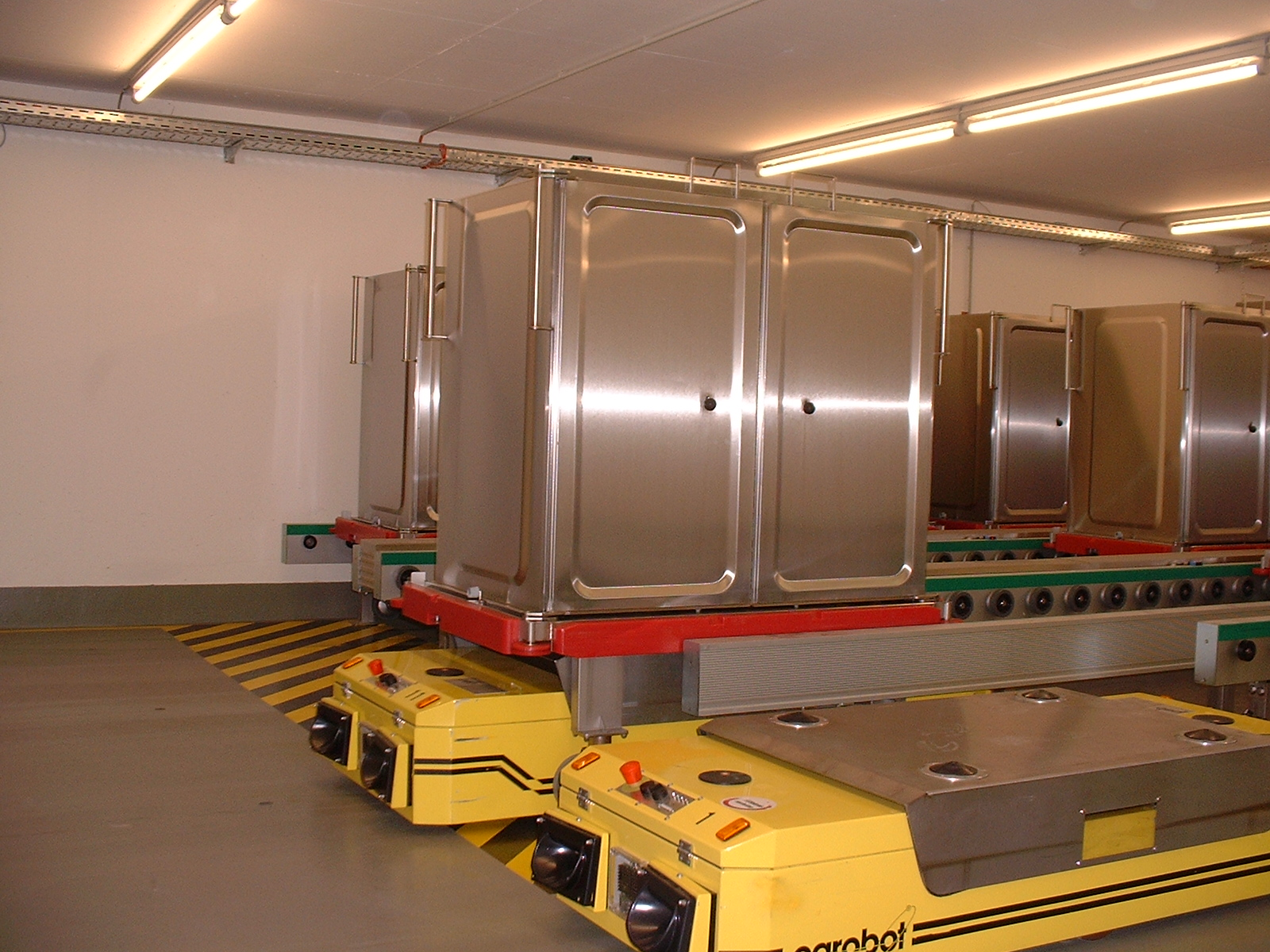 Automated guided vehicle, AGV in Koblenz, Germany